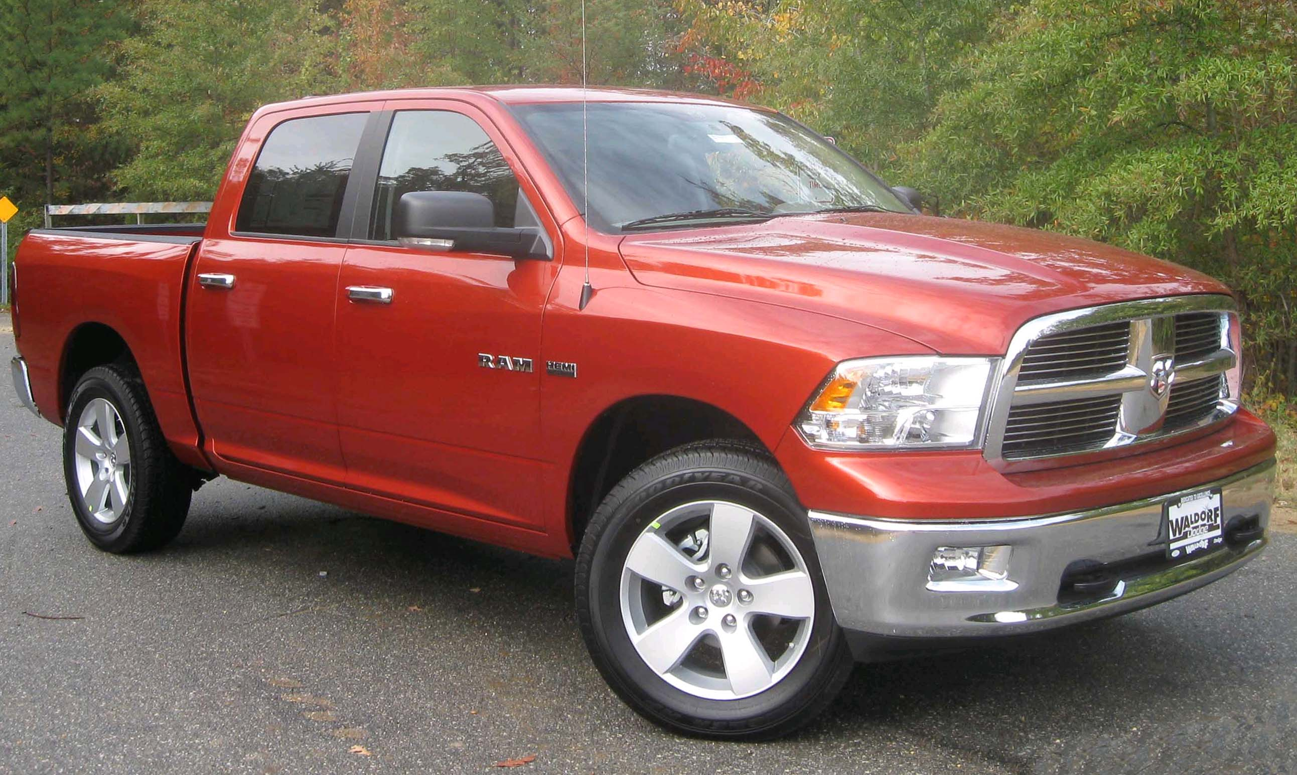 2009 Dodge Ram 1500 photographed in Waldorf, Maryland, USA.